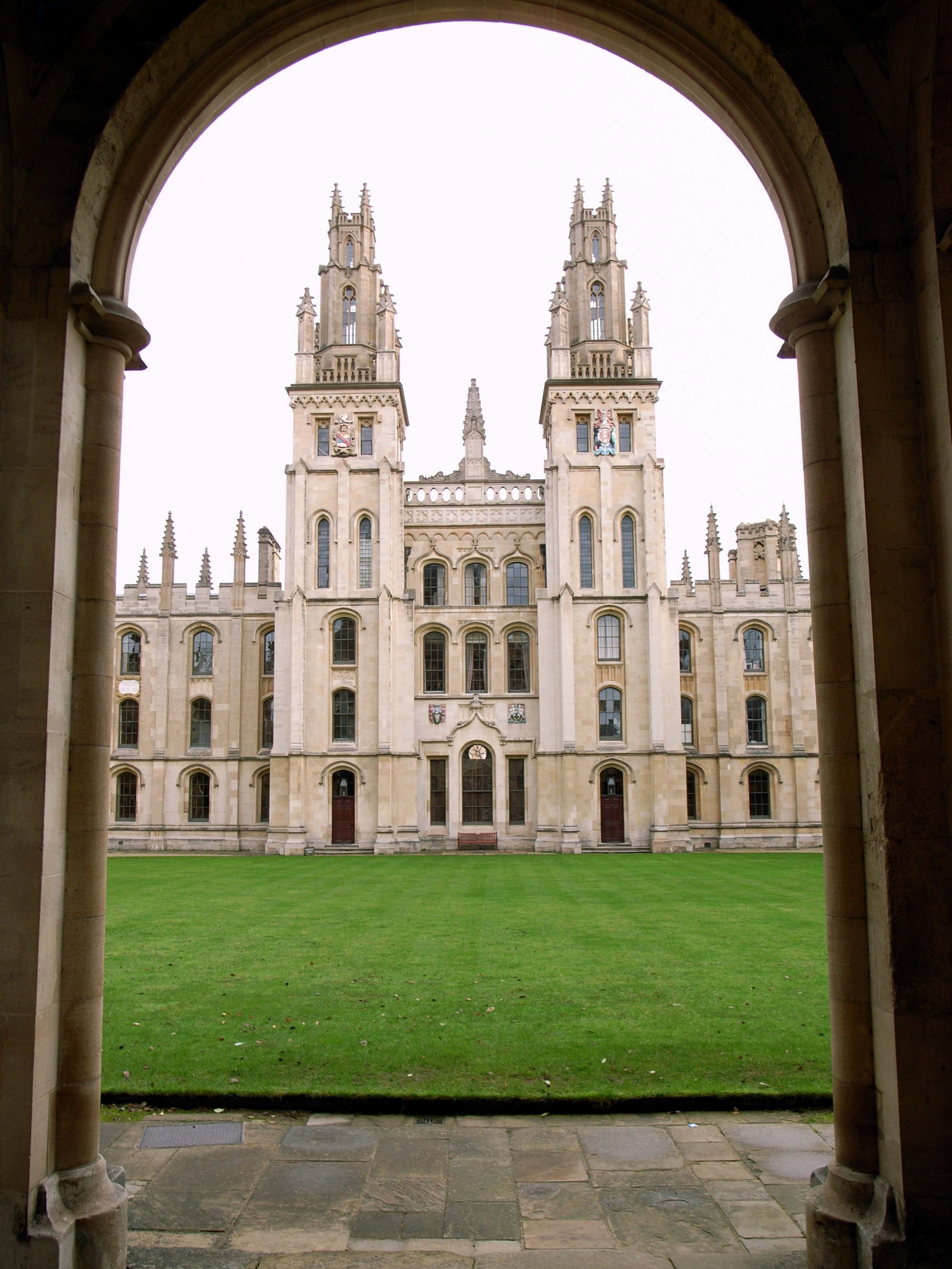 All Souls College Oxford (1715 onwards), by Nicholas Hawksmoor